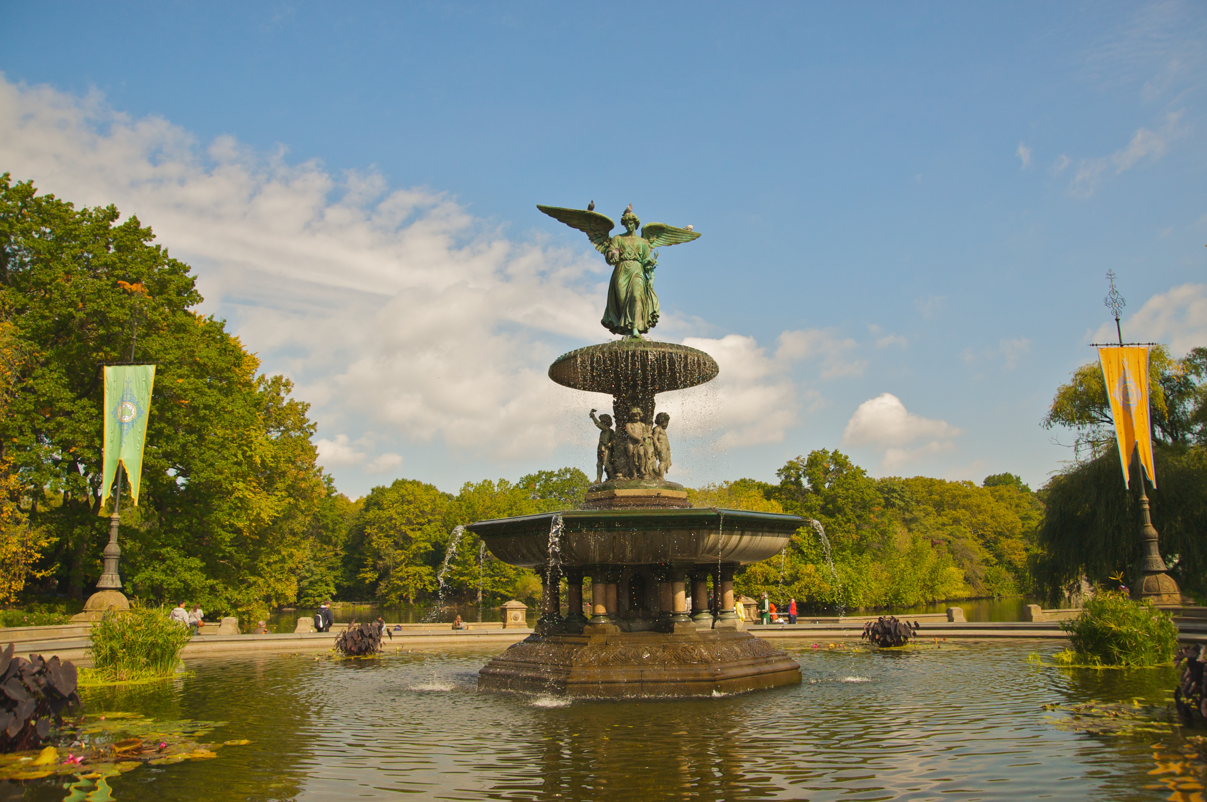 (more details later, as time permits) After walking around the Alice in Wonderland statue yesterday (take a look at "I forgive you, Alice" on Flickr to see what that was all about ), I continued walking westward through Central Park. In the middle of the park (from an east-west perspective) is the Bethesda Fountain, which is often the scene of celebrations, weddings, and random throngs of people enjoying themselves -- as well as a popular location in several movies and TV shows. However, on this quiet Wednesday in mid-autumn, it was almost deserted. I wandered around for a few minutes, looked out at the boat pond, and took a few pictures. It's not enough to give you a comprehensive view of the fountain, but hopefully you'll get a general sense...